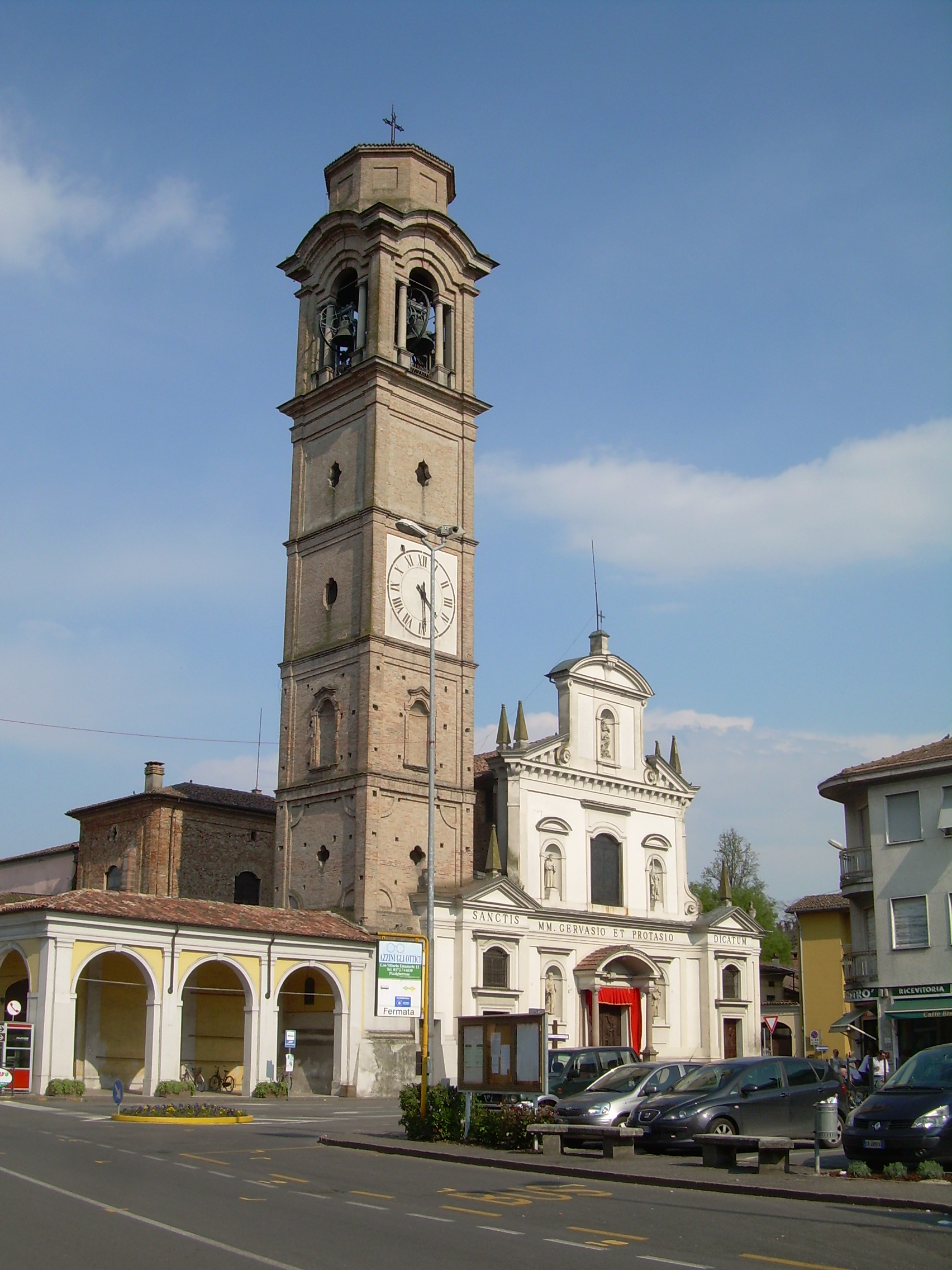 Maleo, Italy.